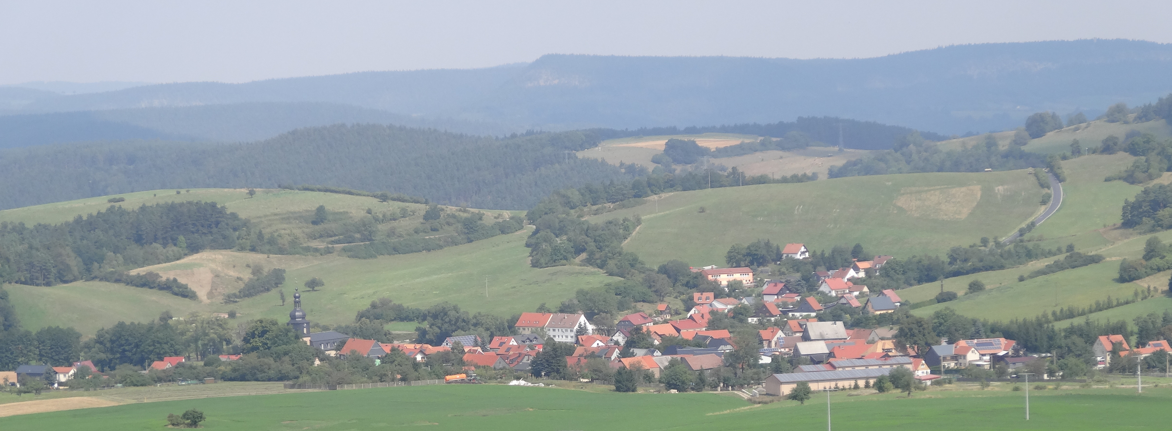 View on Allendorf, Thuringia, Germany